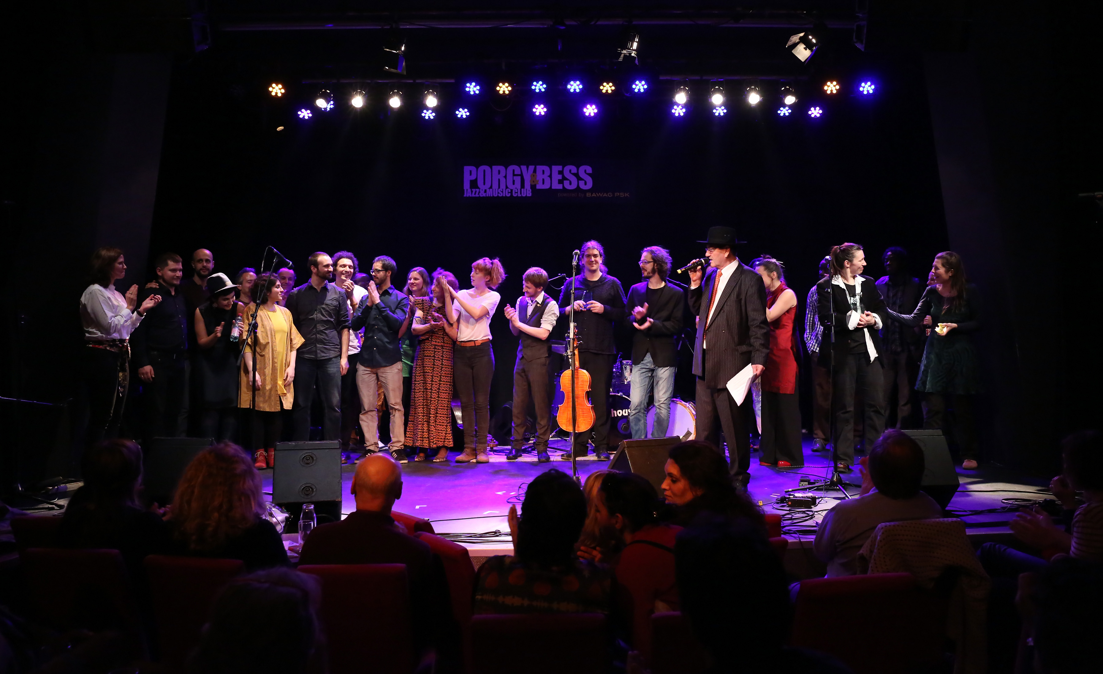 The six bands of the final eveneing of the Austrian World Music Awards 2014 at jazz club Porgy&Bess in Vienna, Austria.